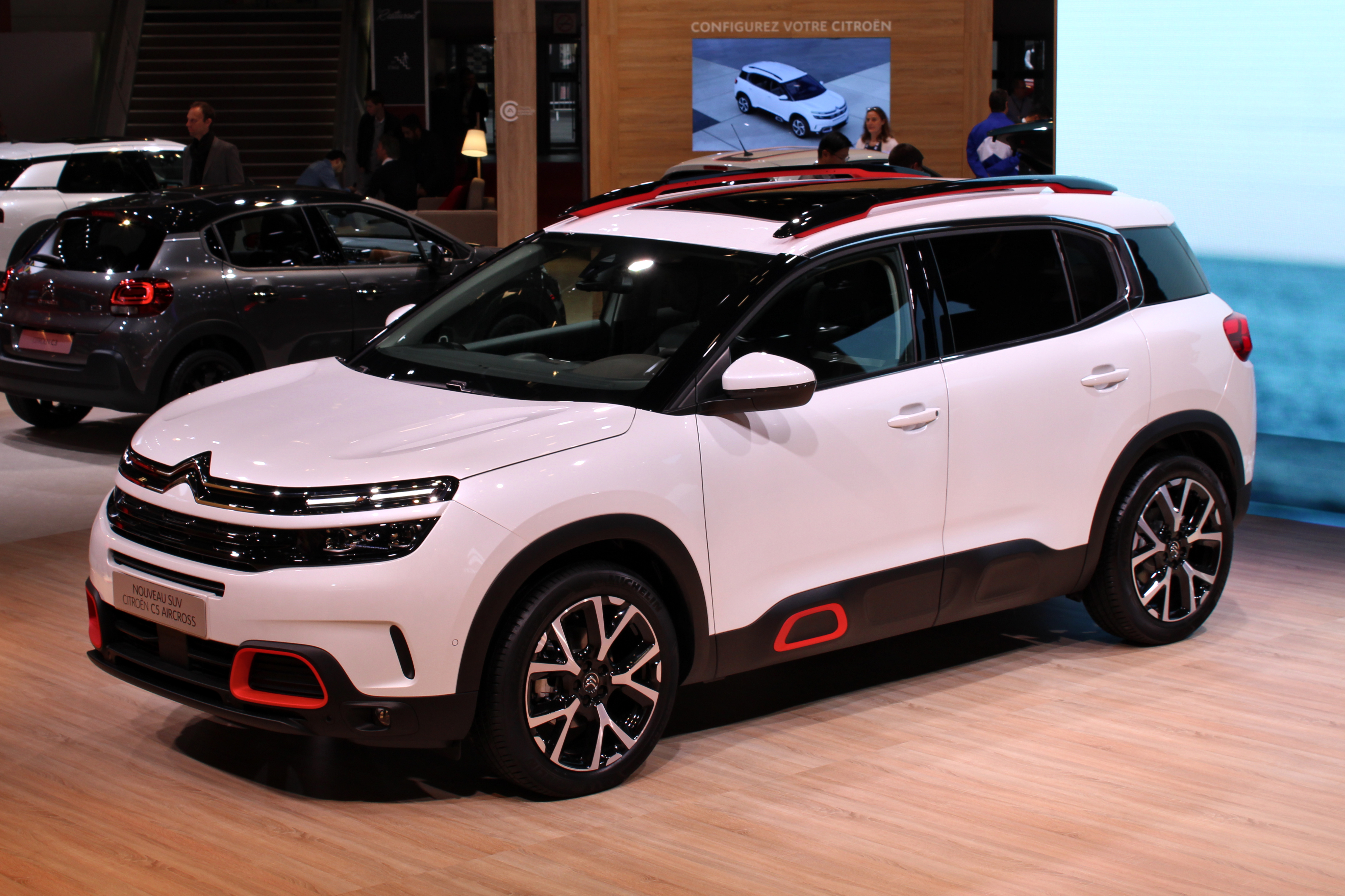 Citroen C5 Aircross at Paris Motor Show 2018